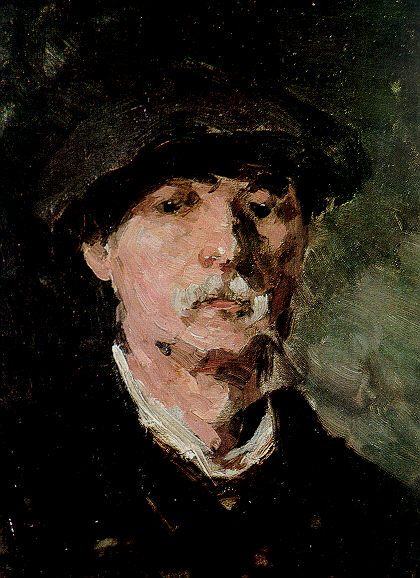 The original description page was here. All following user names refer to en.wikipedia.